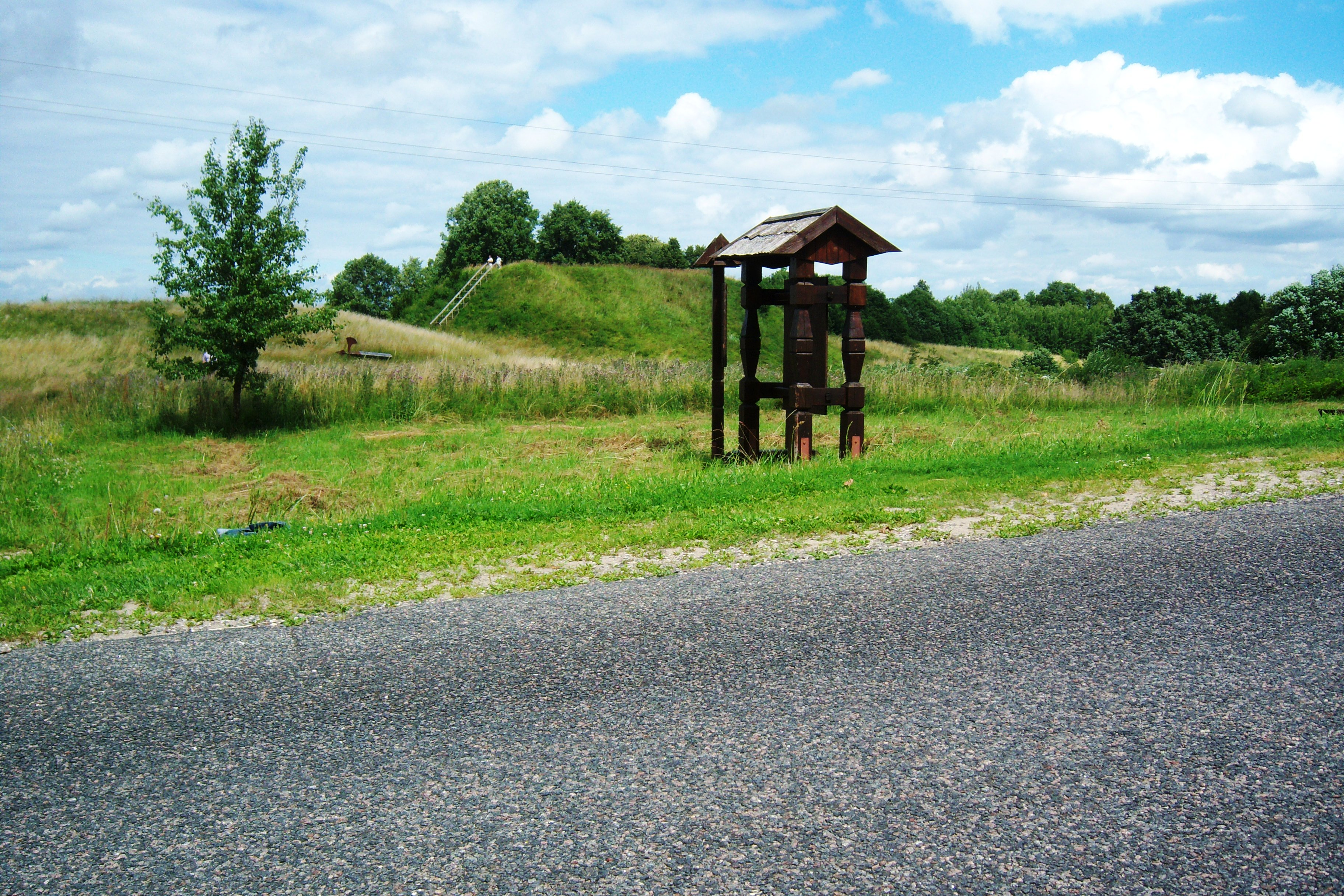 Maisiejūnų hillfort I, Kaišiadorys district, Lithuania